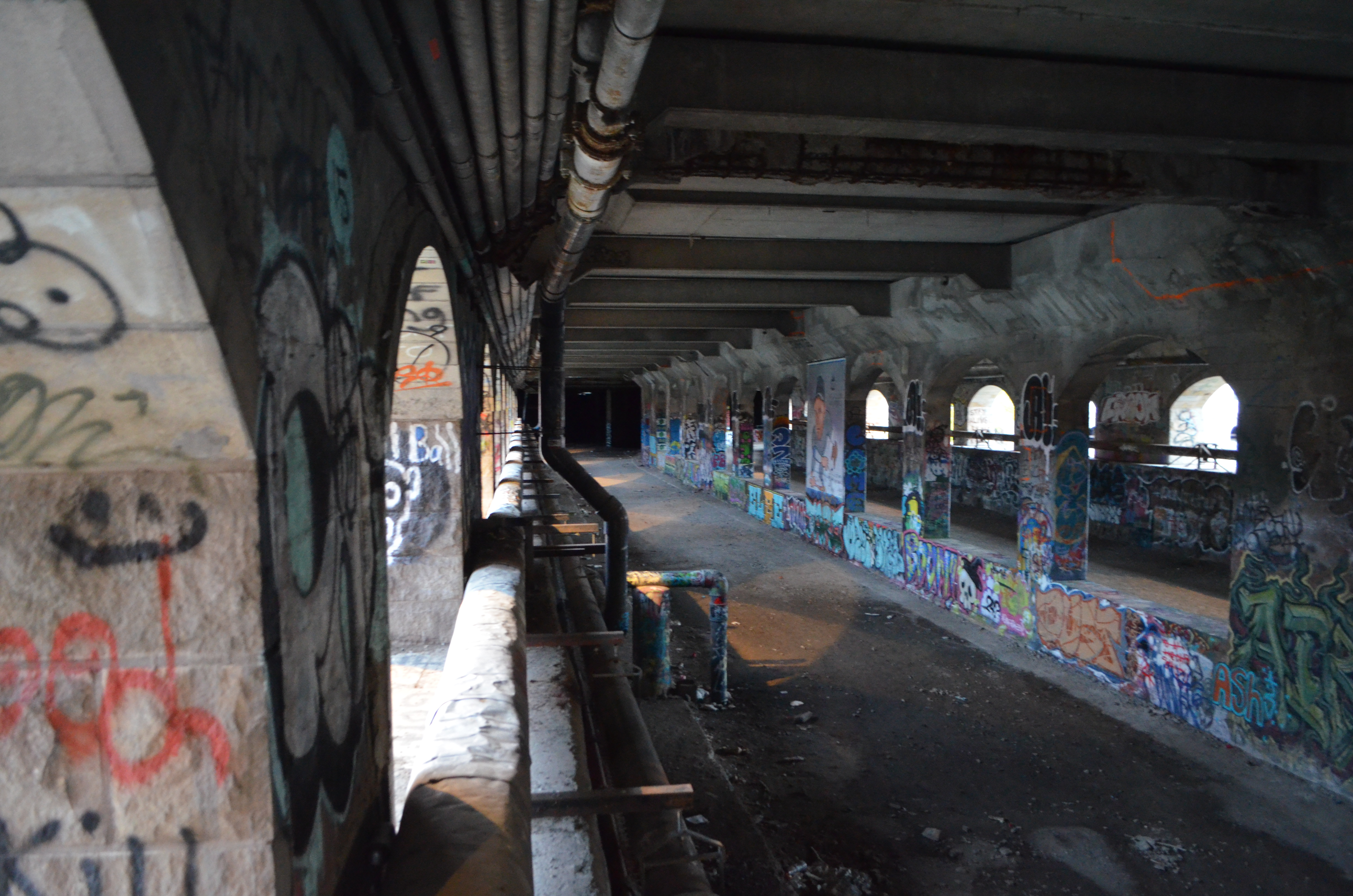 Aqueduct portion of the Rochester Subway over the Genesee River in Rochester, New York.